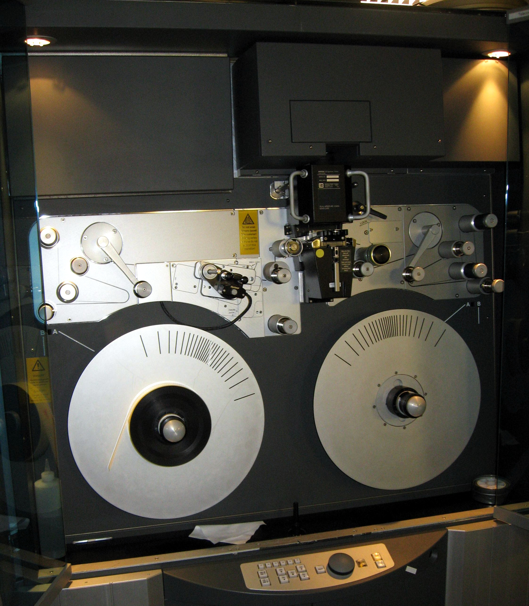 telecineguy Spirit Datacine 4k with doors open My own Work